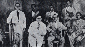 photo of Pedro Stacholy and his jazz band Sagua